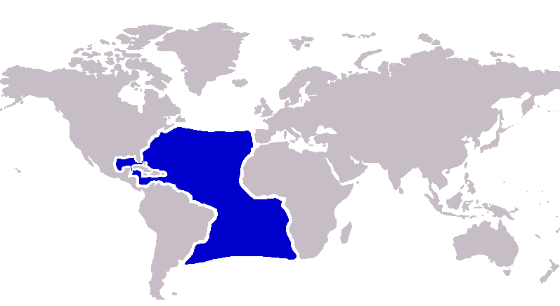 Distribution of Atlantic blue marlin, Makaira nigricans using map based on GDFL image